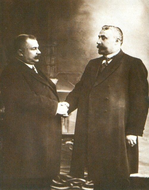 Head of the St. Petersburg police detective in the 1903-1915 years of actual state councilor Vladimir Filippov (left) and head of the Moscow police detective Arkady Cats.